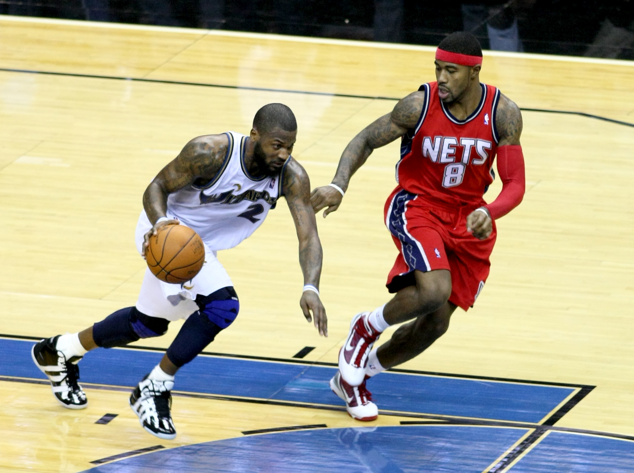 Washington Wizards v/s New Jersey Nets October 31, 2009 at Verizon Center in Washington, D.C.